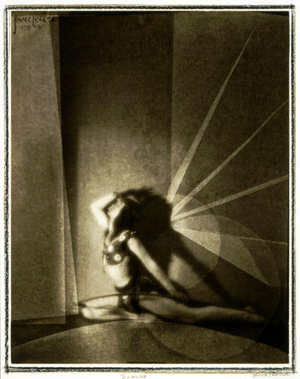 Spaces (Harry Losée). Photograph. 9 5/8" x 7 5/8"